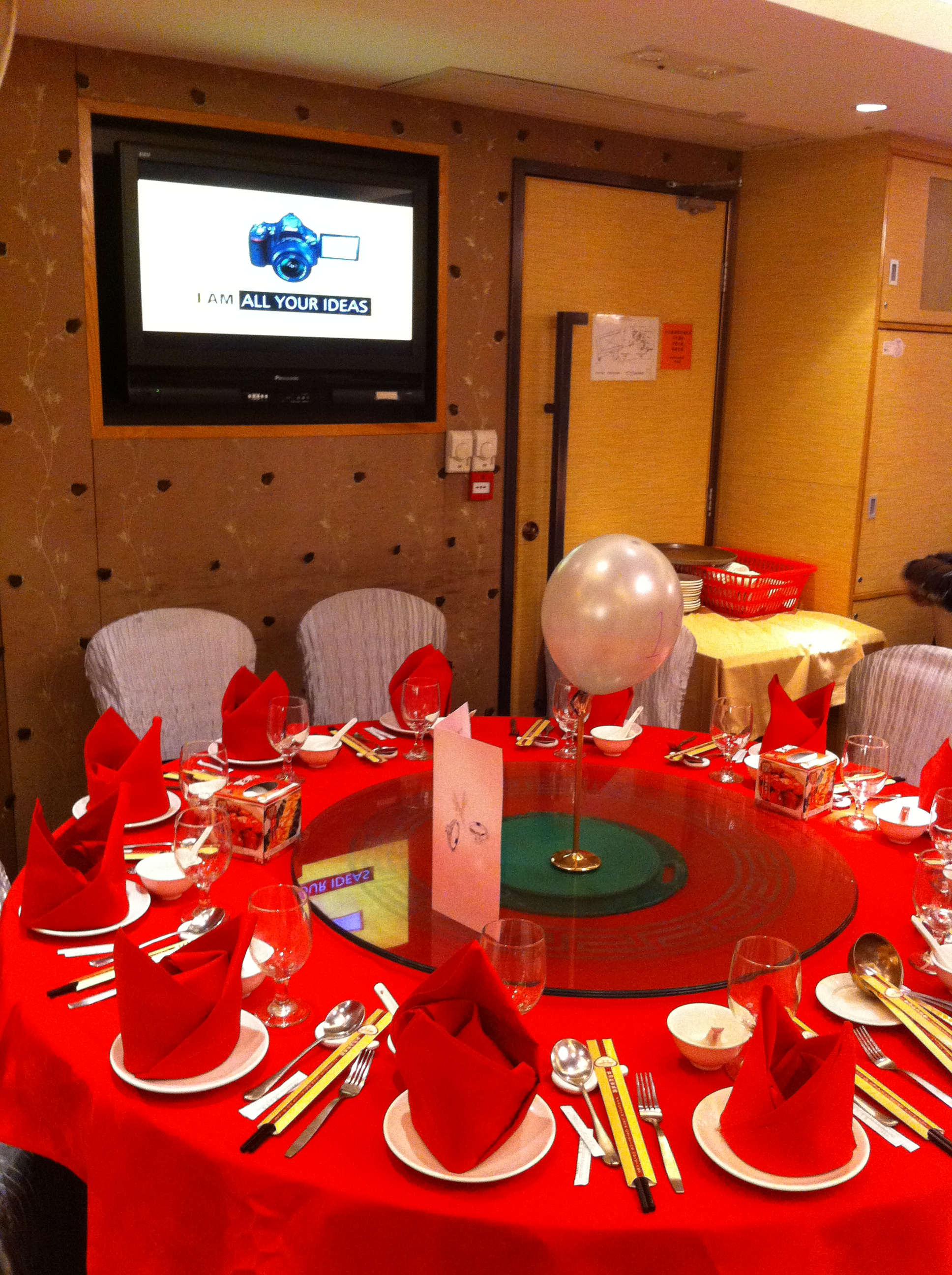 South Horizons Residents Club, South Horizons, Ap Lei Chau, Hong Kong